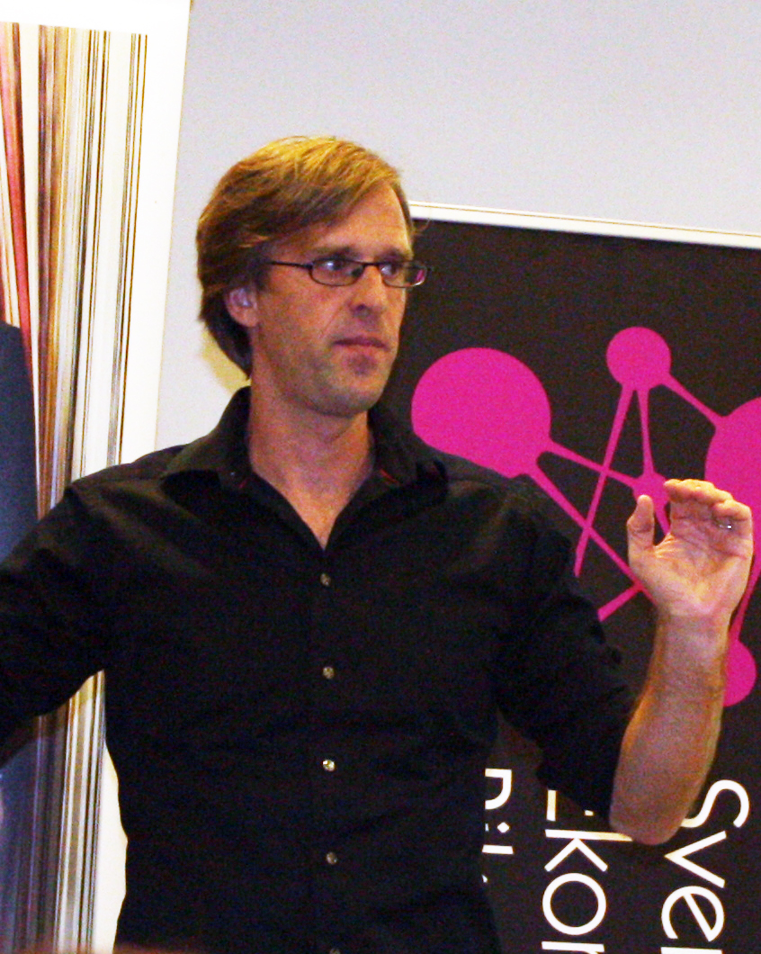 Fredrik Härén on SERO-conferens, Karlstad